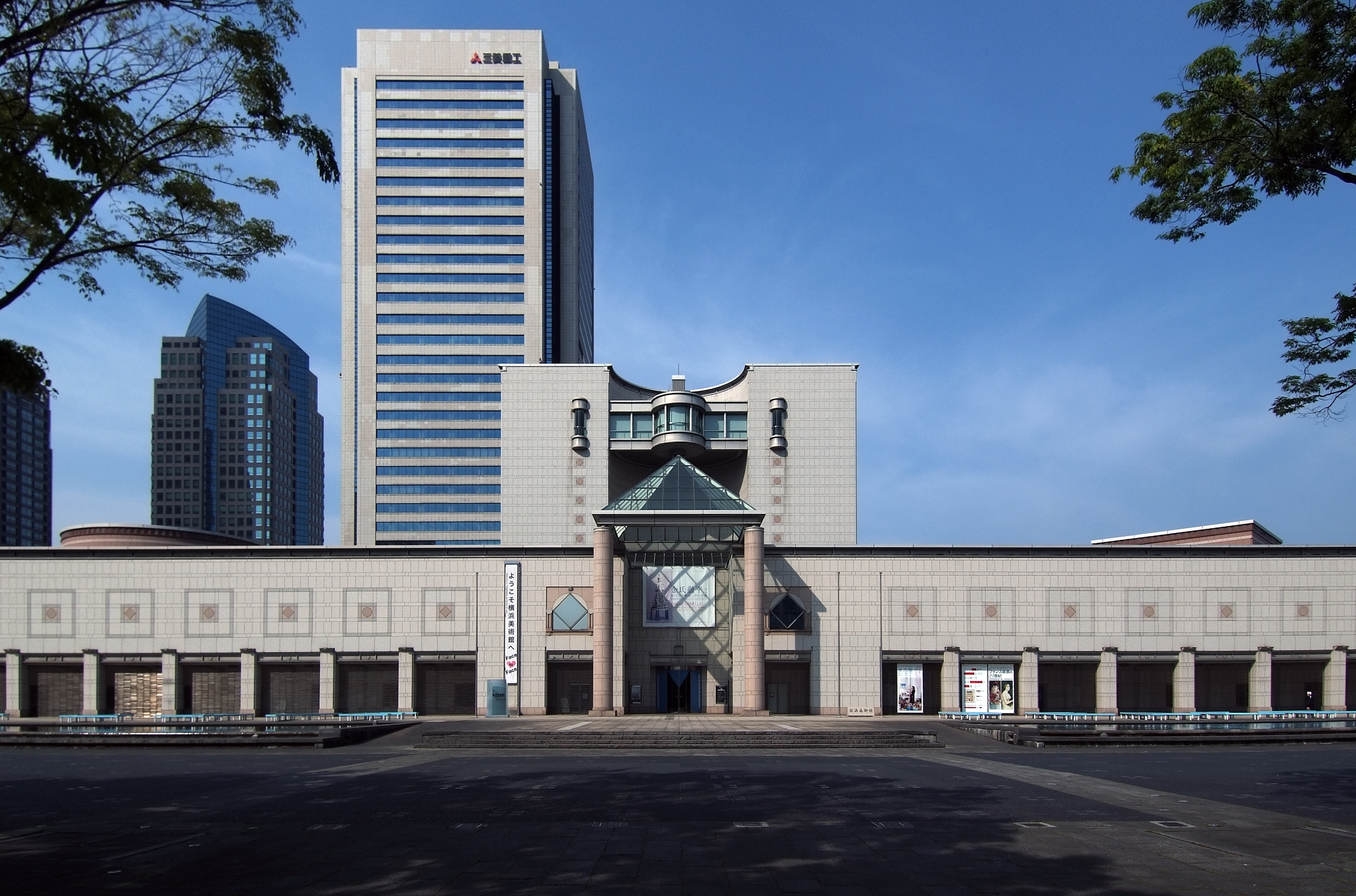 Yokohama Museum of Art, at Naka-ku Yokohama Japan, design by Kenzo Tange in 1989.